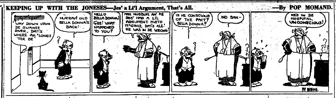 "Keeping up with the Joneses" comic strip.